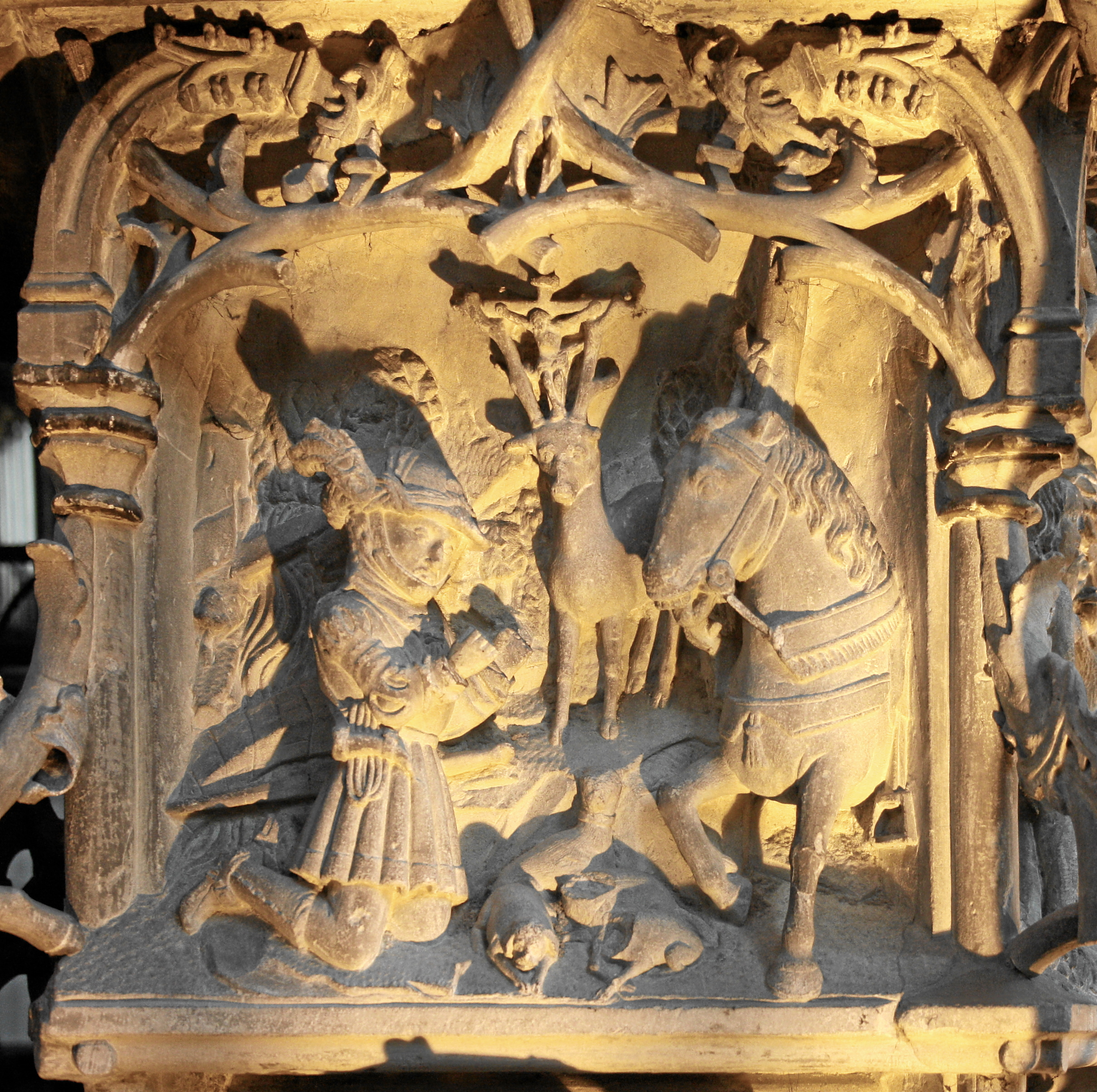 Düsseldorf, Germany. Catholic church St. Lambertus: tabernacle (detail), late 15th century.